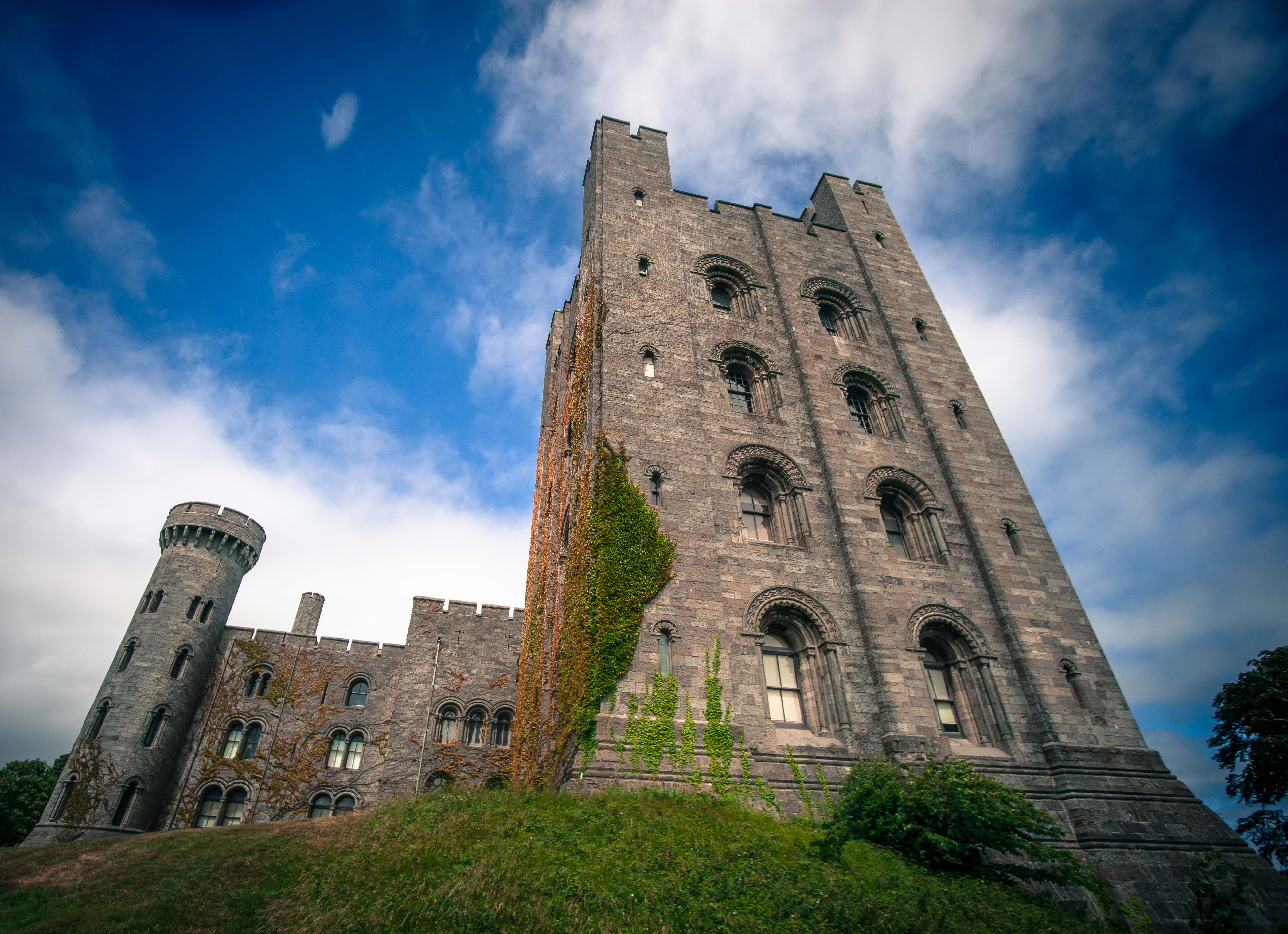 Exterior of Penrhyn Castle, UK